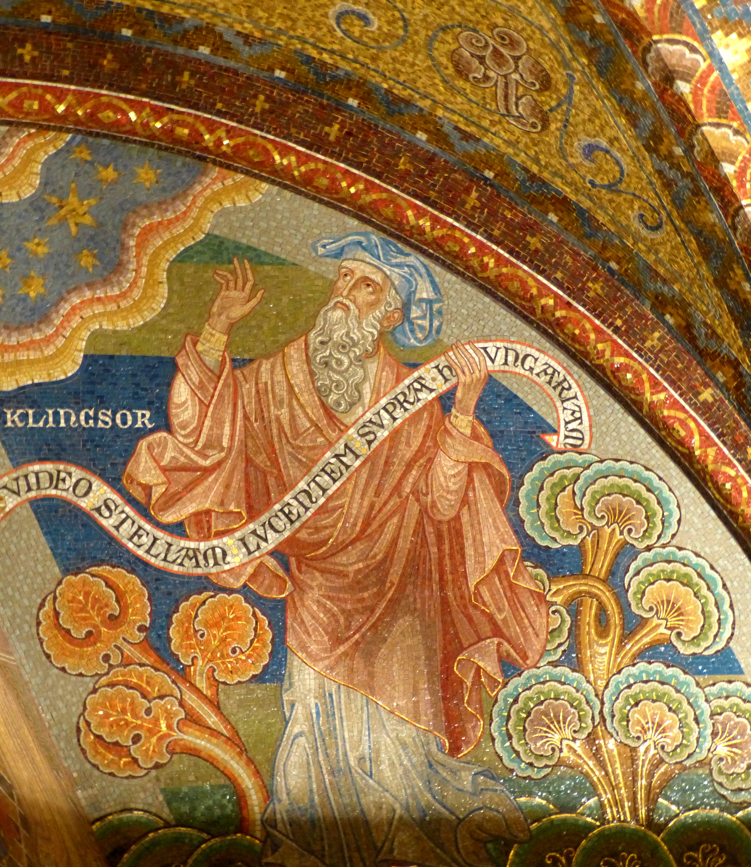 Wartburg ( Eisenach/Thuringia ). Chamber of Elisabeth of Hungary - Life of Elisabeth of Hungary on mosaics ( 1902-1906 ): Magician Klingsor prophecies the birth of Elisabeth.